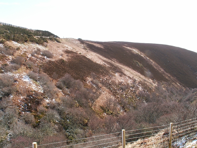 The Ord. Although much of the area from Helmsdale to Berriedale is called the Ord this is the Ord proper. The A9 from Edinburgh, and the main one into Caithness rises from sea level to little more than 220 mts AMSL but it's exposed and can be very tricky to impassable in poor winter weather. This the Sutherland Caithness border from the Sutherland side.